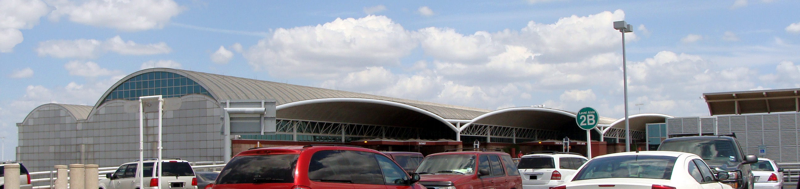 San Antonio International Airport, Terminal 1.